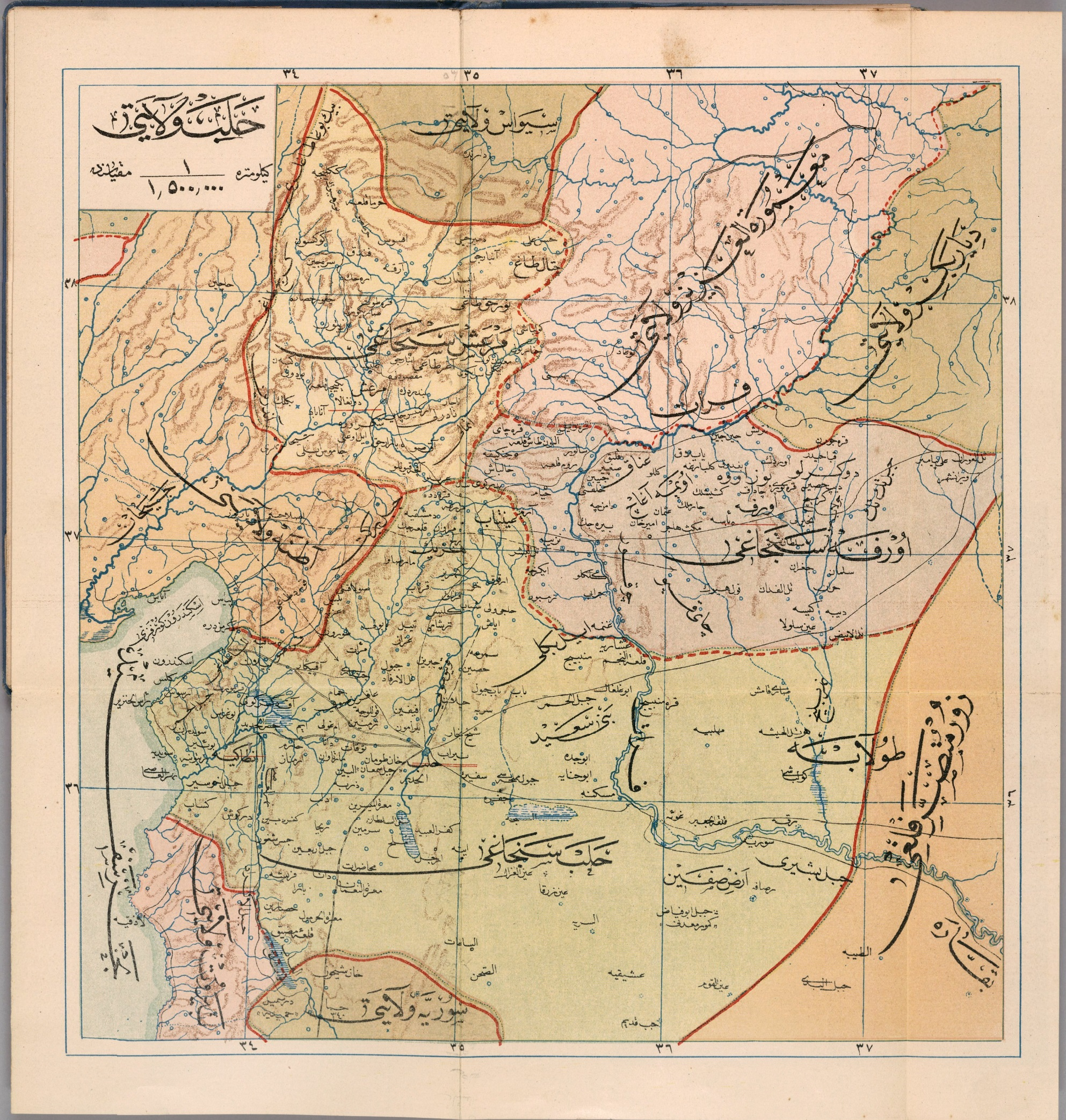 Aleppo Vilayet — Memalik-i Mahruse-i Şahaneye Mahsus Mukemmel ve Mufassal Atlas (1907)